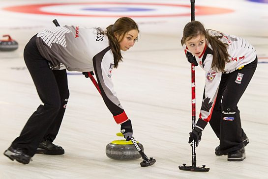 World Juniors 2016 Denmark. Burgess left Clarke right